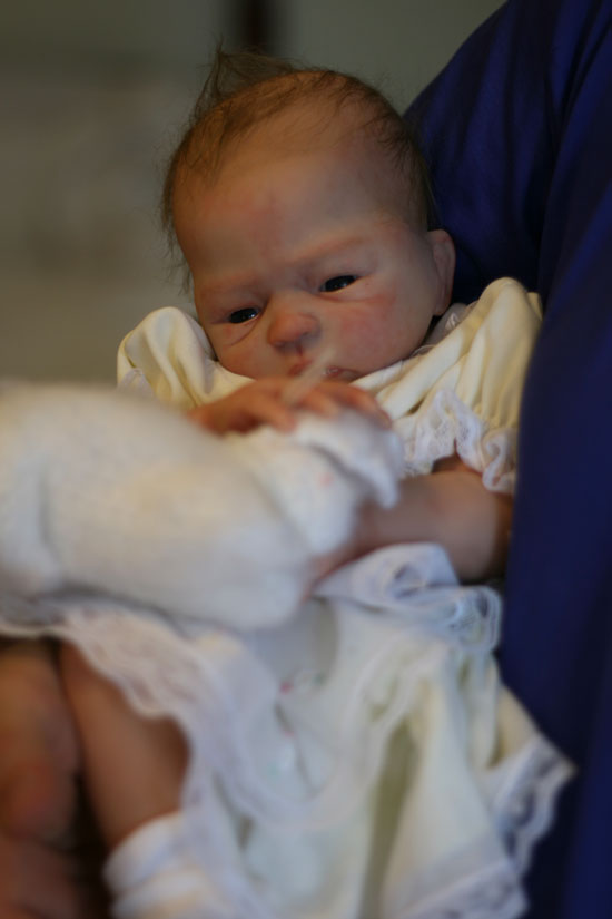 Emmaline reborn vinyl kit by Donna Lee of